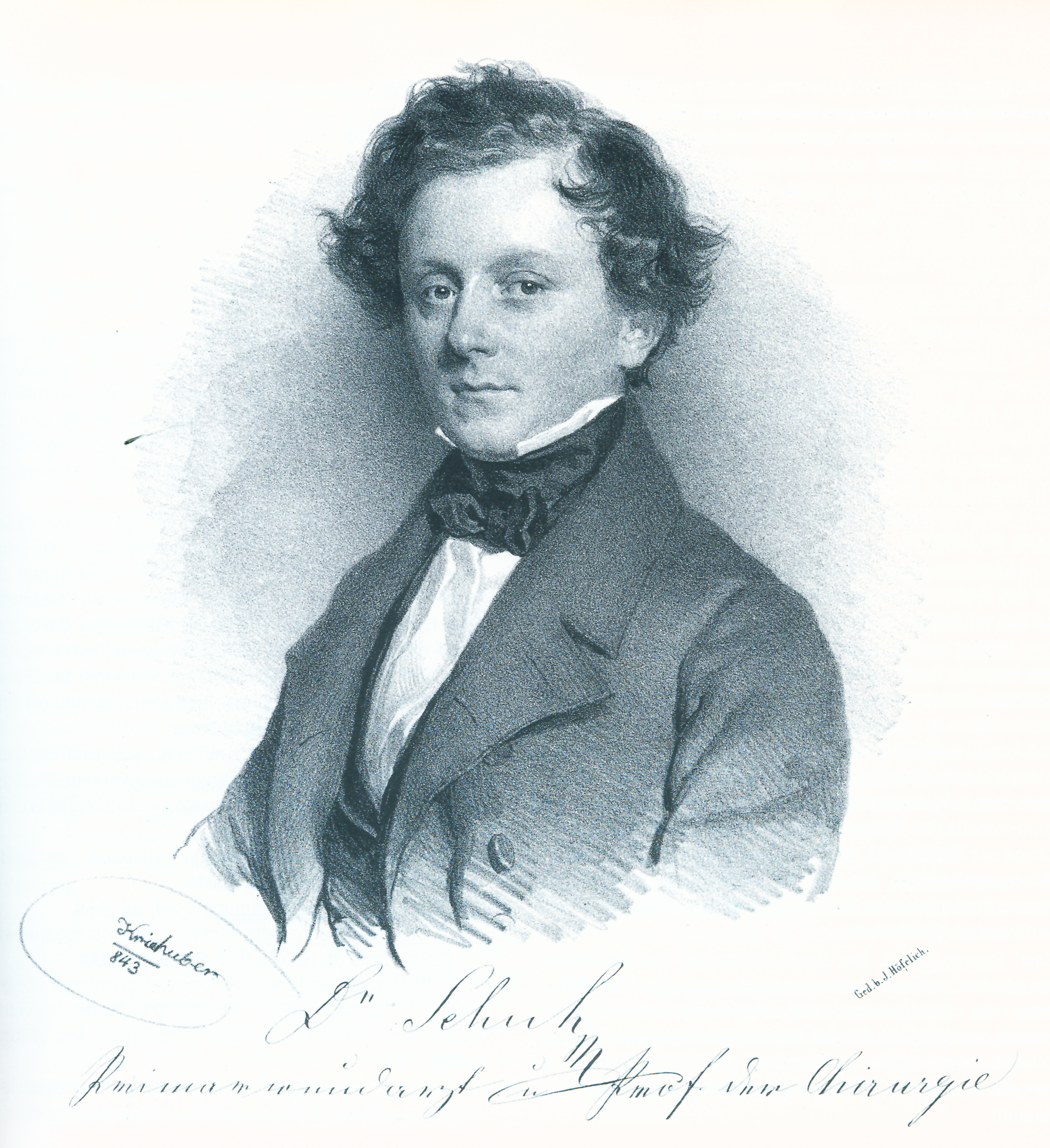 prof schuh